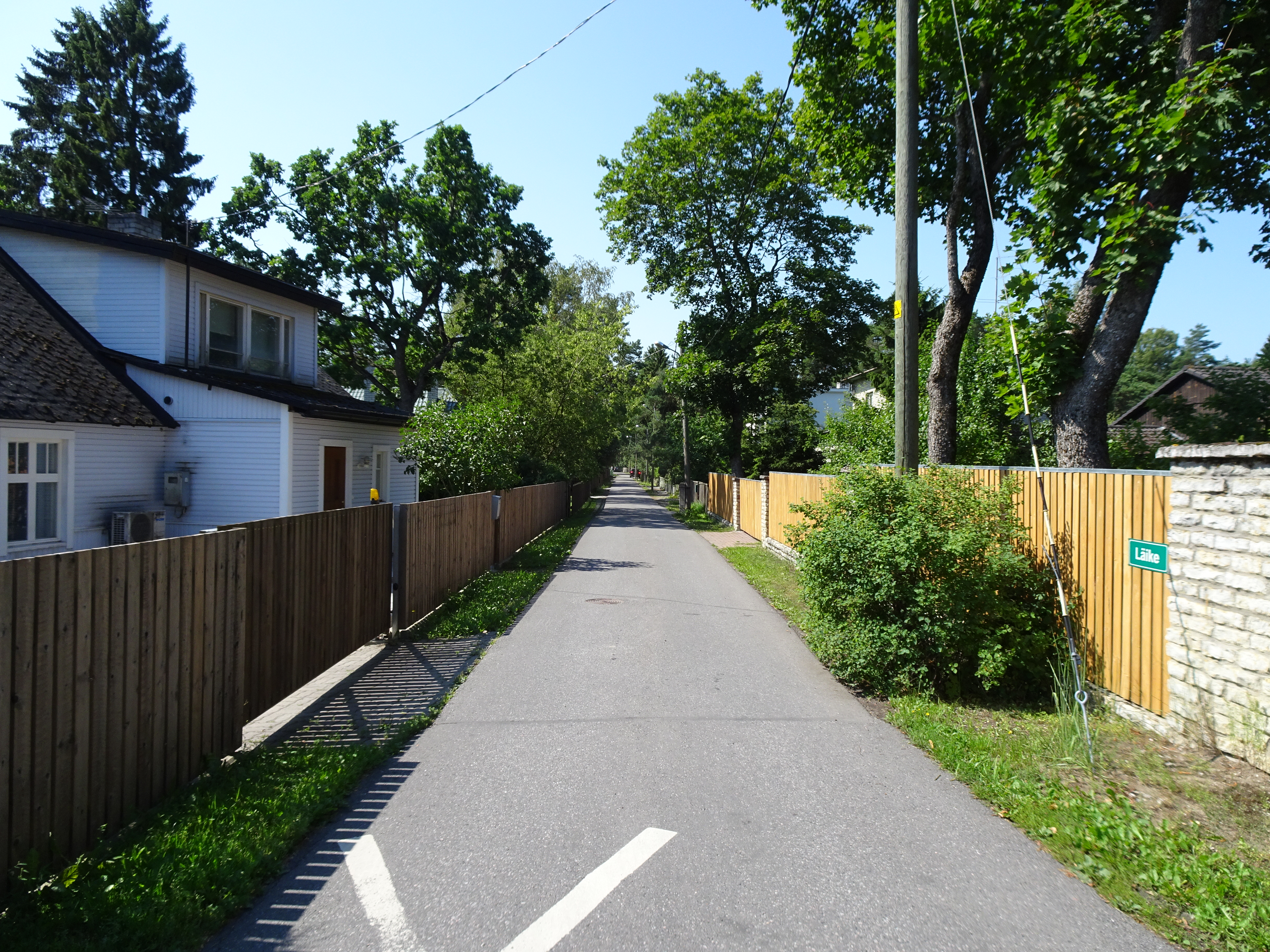 Läike Street in Tallinn, Estonia